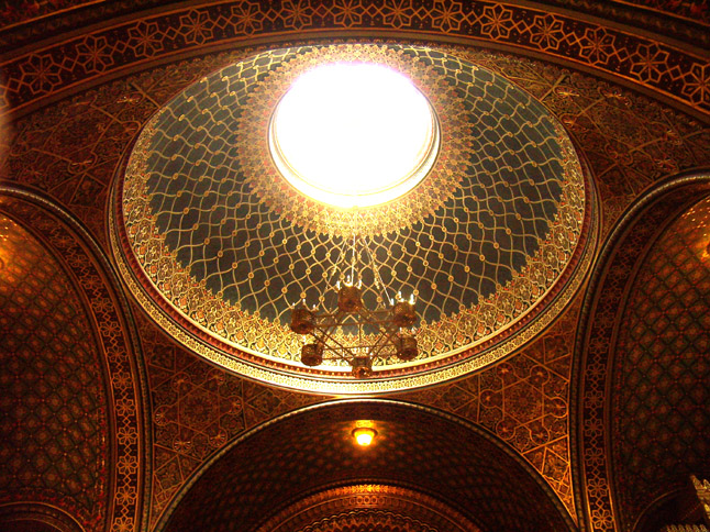 Dome of the Spanish synagogue in Prague